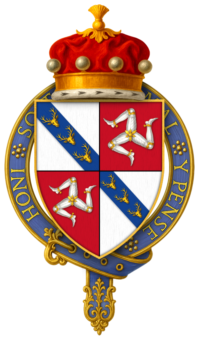 Coat of Arms of Sir John Stanley, Lord Lieut of Ireland, titular King of Man, KG HOPE, W. H. St. John, The Stall Plates of the Knights of the Order of the Garter 1348 – 1485: A Series of Ninety Full-Sized Coloured Facsimiles with Descriptive Notes and Historical Introductions, Westminster: Archibald Constable and Company LTD, 1901. “ Plate ______ - Sir John Stanley, _______, K.G. c. 1405-1414... shield of arms: quarterly: 1 and 4, silver on a bend azure three stags' heads gold (for Stanley); 2 and 3, gules three legs in gold armour flexed in triangle (for the Isle of Man) ” The Stall plate remains intact within the ____ stall, on the ____ side of the chapel.